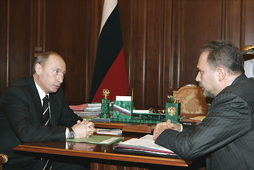 With Governor of Ivanovo Region Mikhail Men.